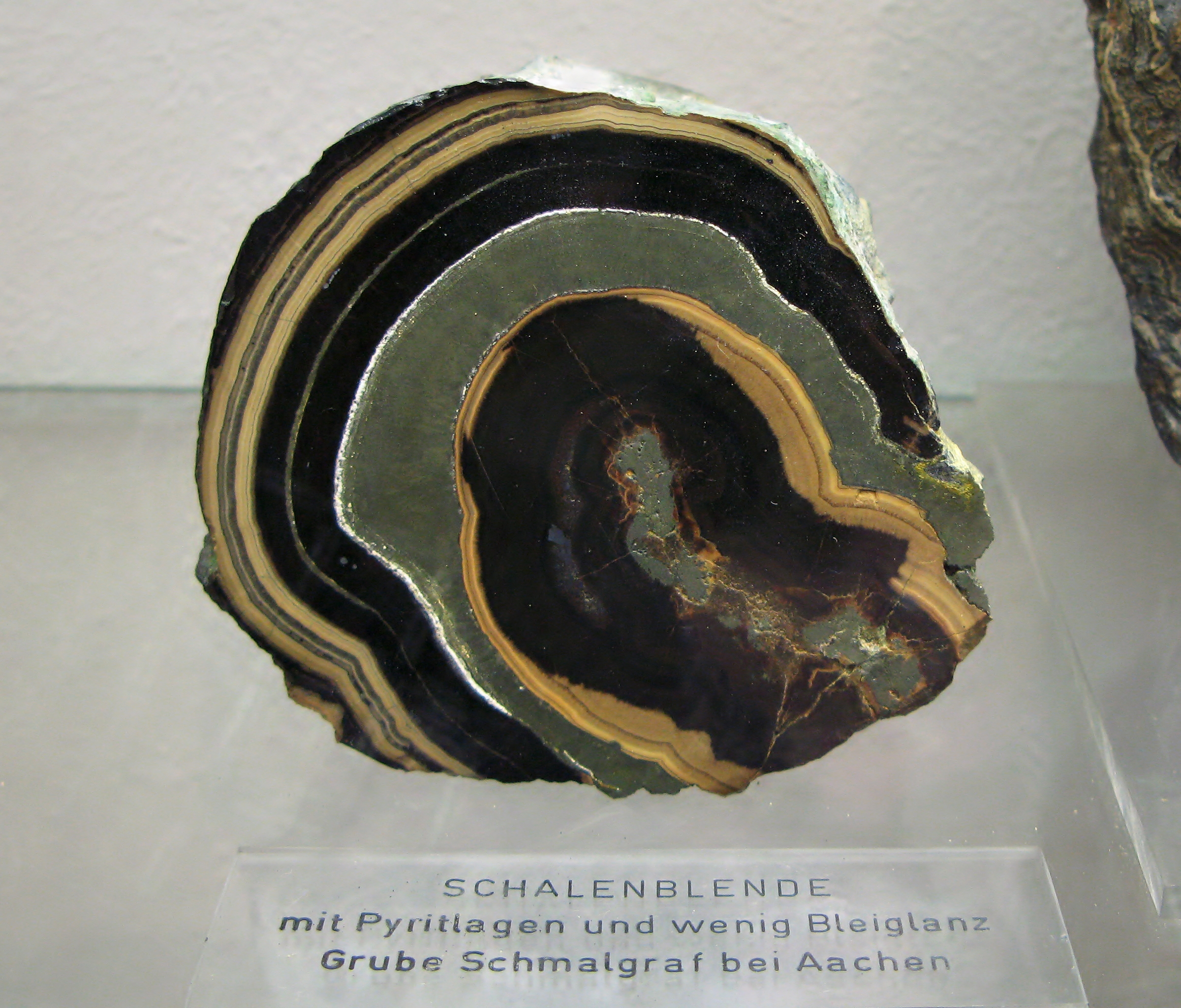 Schalenblende with Pyrite and a few Galenite Locality: Schmalgraf Mine near Aachen - Exposed in the Mineralogical Museum, Bonn, Germany